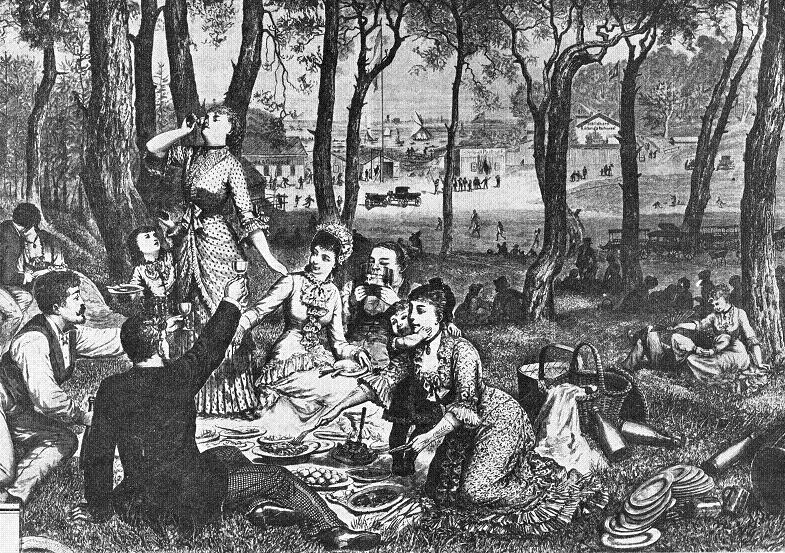 Drawing Ein Picknick im Grunewald (part). View to the Jürgenlanke Havel and to the restaurant Schildhorn. Schildhorn (german for: shieldhorn) is a headland in the river Havel, situated in the protected area Grunewald in the homonymous quarter Grunewald of Berlins borough Charlottenburg-Wilmersdorf, Germany.